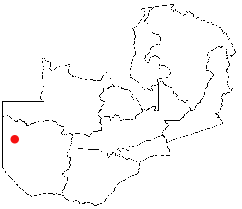 Kalabo, Zambia Location Map; created with the GIMP.